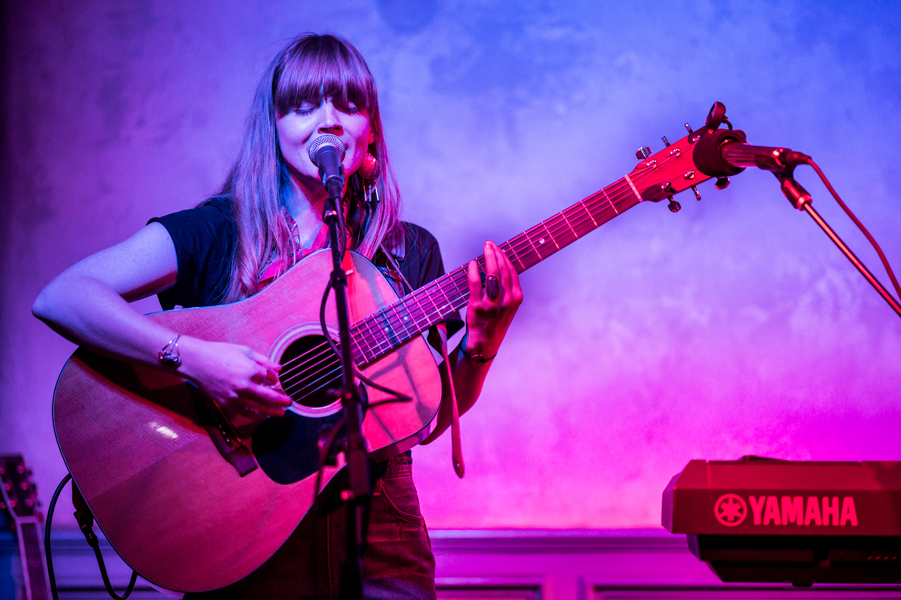 Courtney Marie Andrews performing live in the Out of Order bar at Tenants of the Trees in Silverlake, Los Angeles, California, on Wednesday, January 4, 2016.